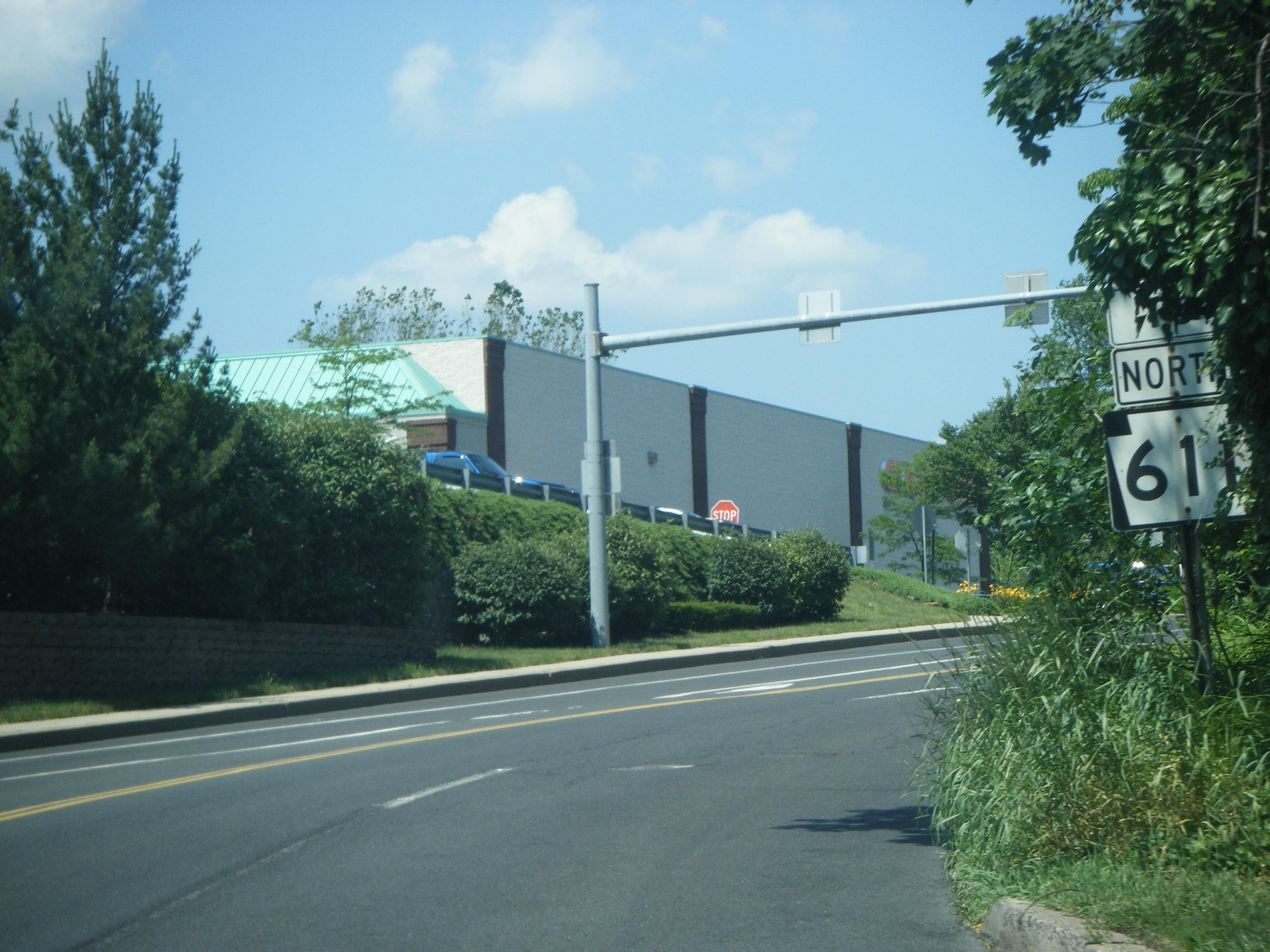 Northbound Dresher Road approaching Pennsylvania Route 611 (Easton Road) in Horsham, Pennsylvania. The north PA 611 trailblazer is provided for motorists from eastbound Pennsylvania Route 463 (Horsham Road) who use Dresher Road to access northbound PA 611.